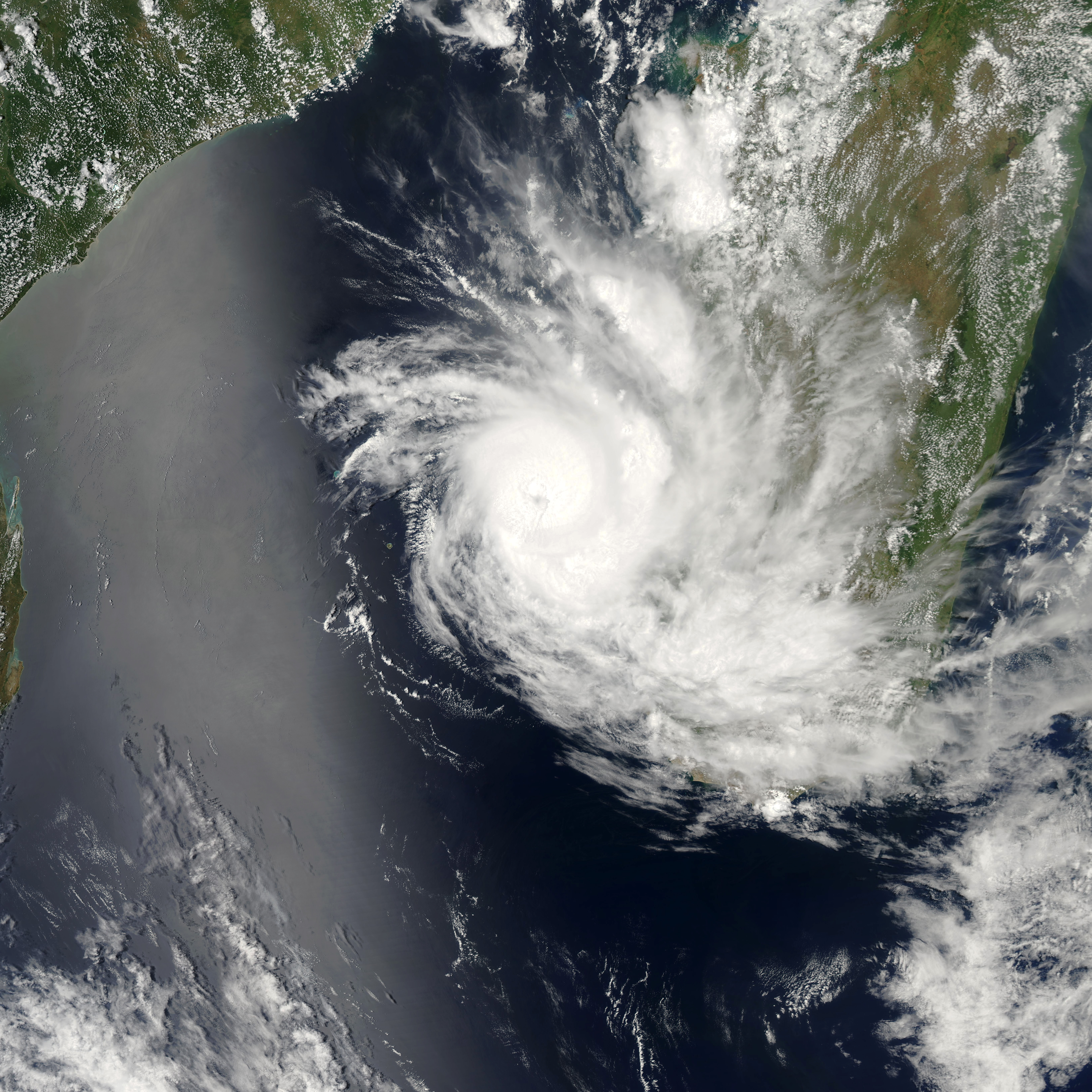 Intense Tropical Cyclone Ernest on January 22, 2005